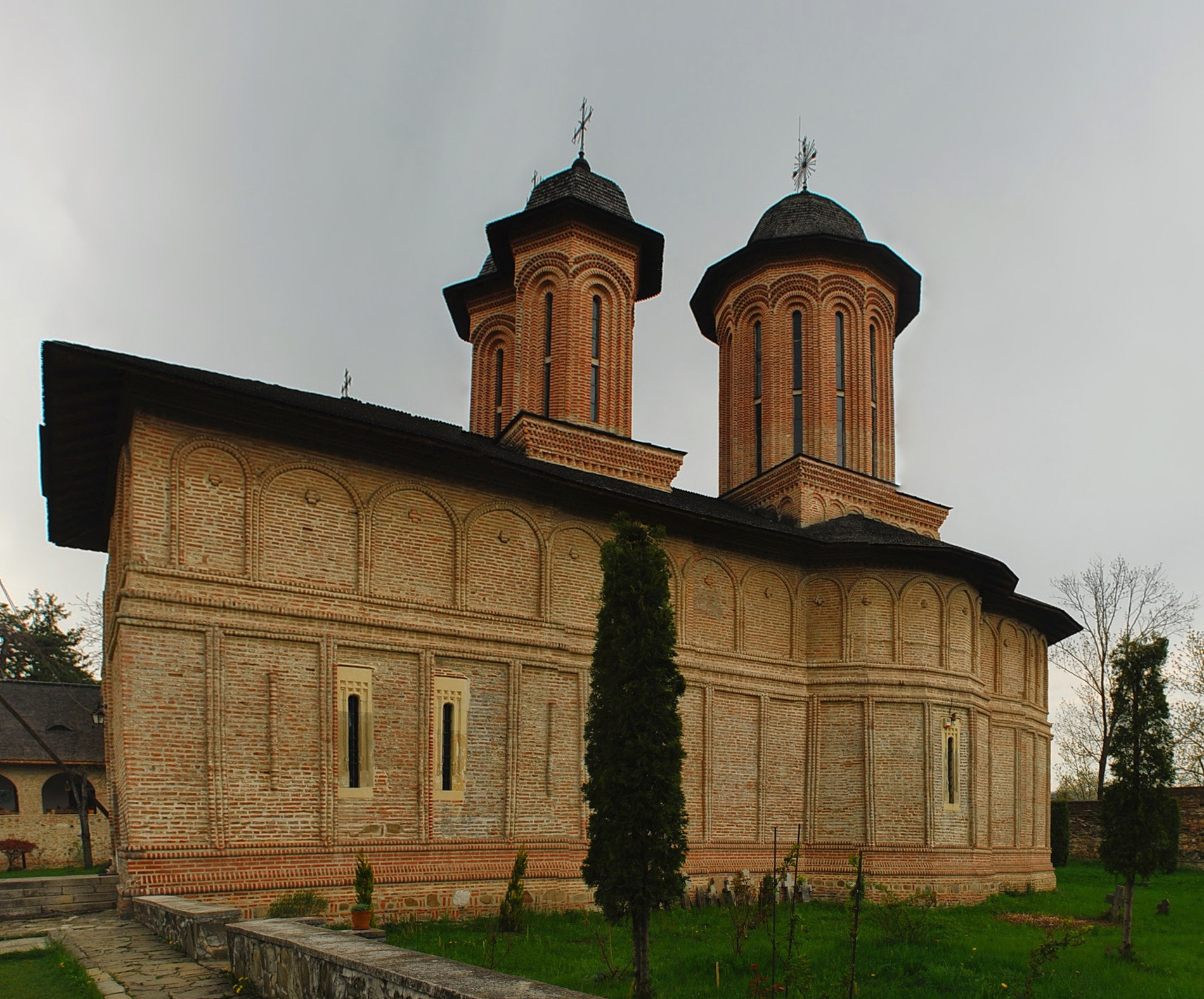 Church of Brebu monastery, Prahova County, RomaniaRomână: Biserica mănăstirii Brebu, judeţul Prahova, România 01